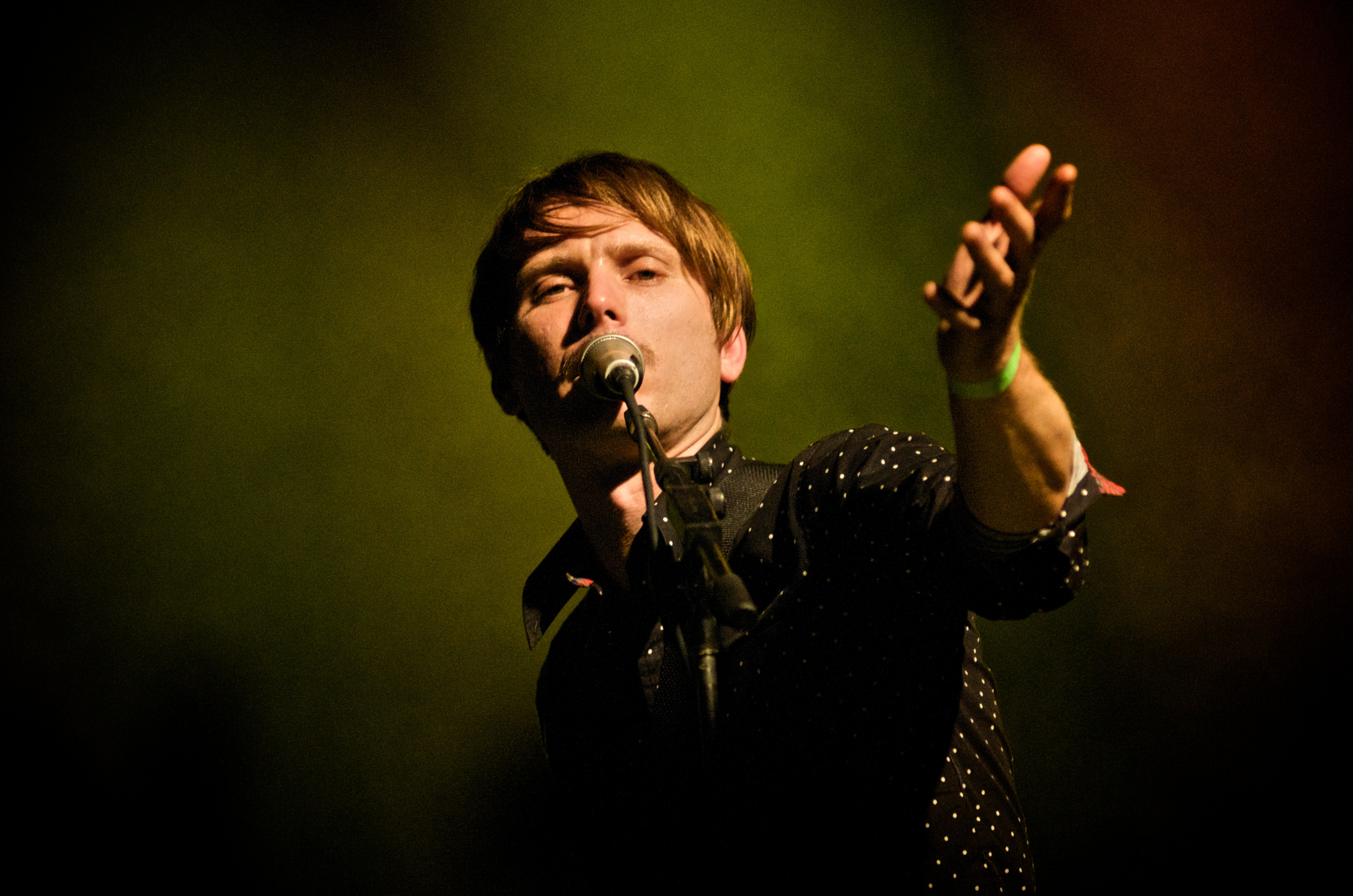 Franz Ferdinand in The Week, São Paulo, Brazil.